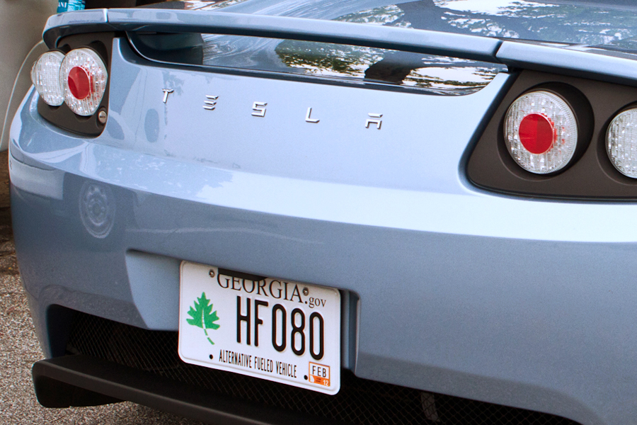 Close up view of Georgia's Alternative Fuel Vehicle (AFV) license plate which grants access by solo drivers to the HOV lanes